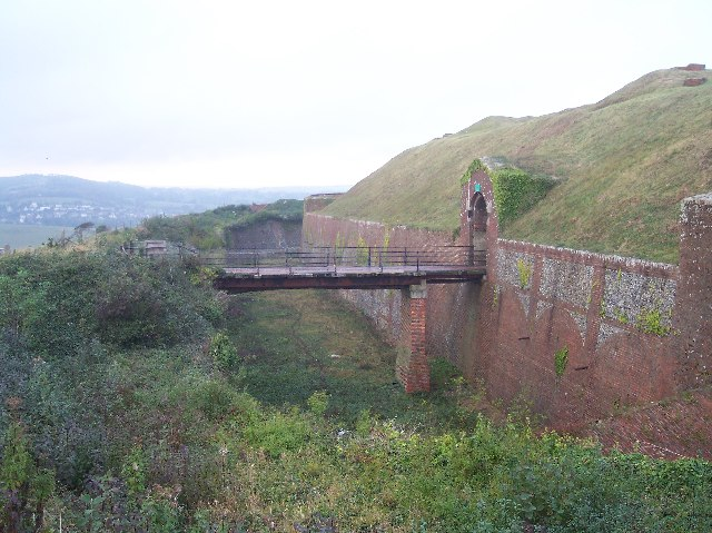 Bembridge Fort. Built 1862-1867 against a possible invasion of Napoleon's forces. It had 3 officers and 100 men. It had 2 4" breech loading and 6 muzzle loading guns.